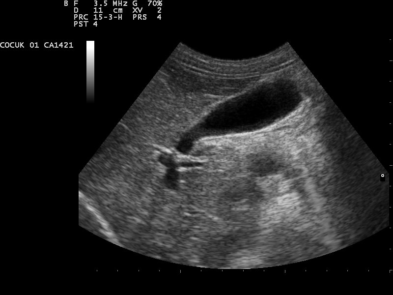 Ultrasound image of gallbladder